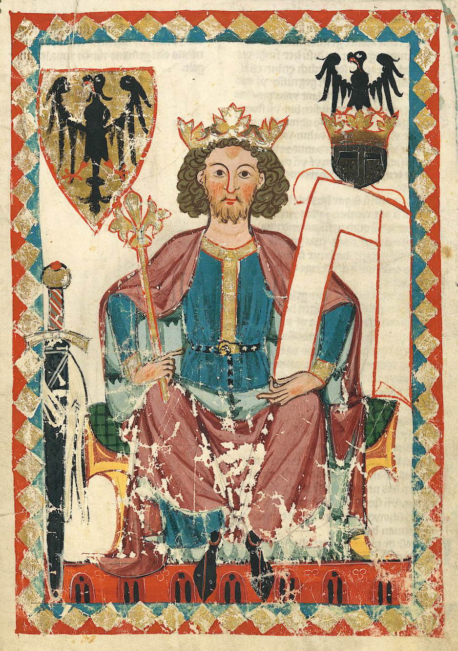 Codex Manesse, fol. 6r, Henry VI., Holy Roman Emperor, c. 1300